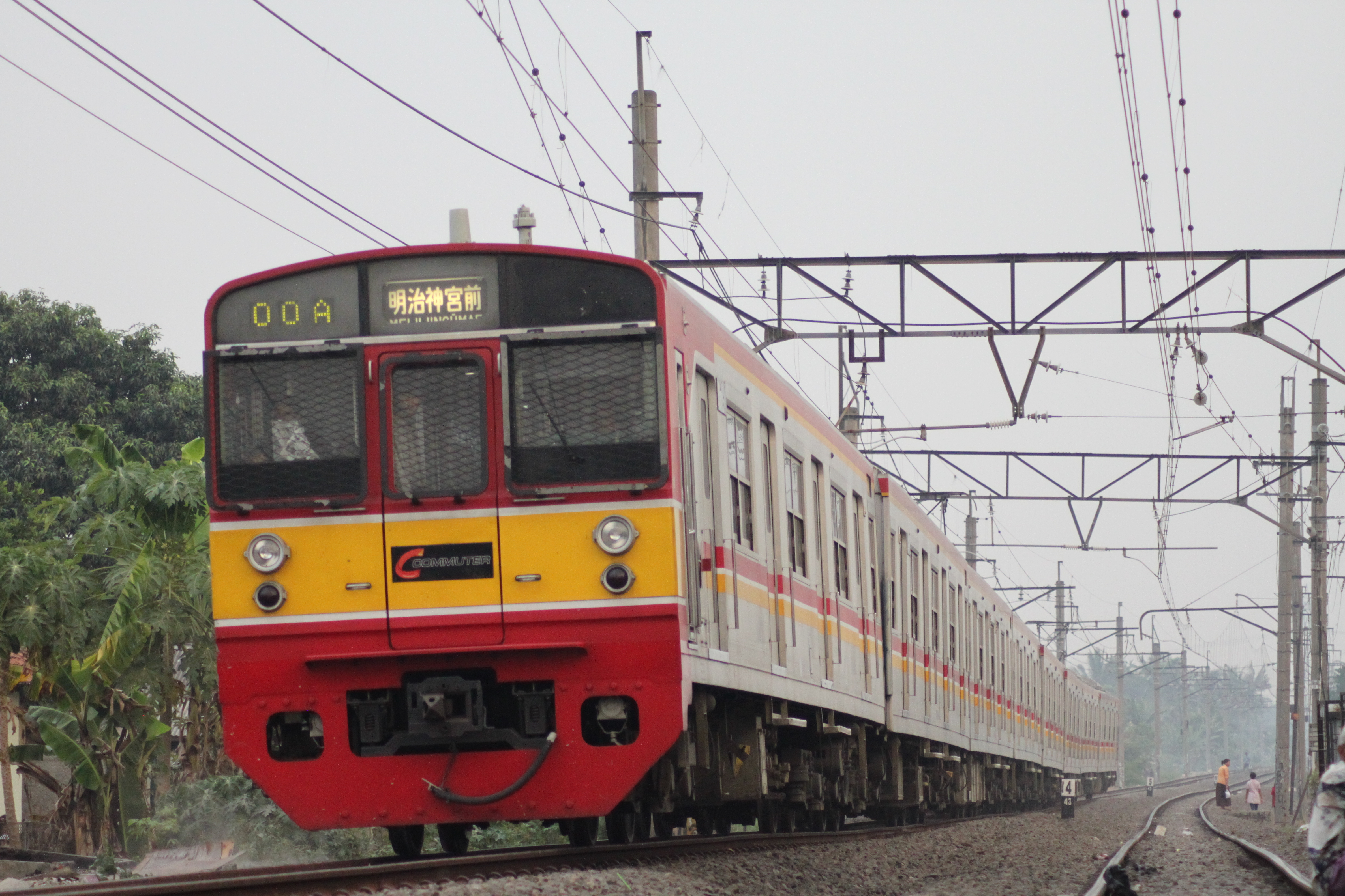 Former JR East Joban Line 203 series set 66 in an evening service in Bojonggede in West Java, Indonesia, July 2012.